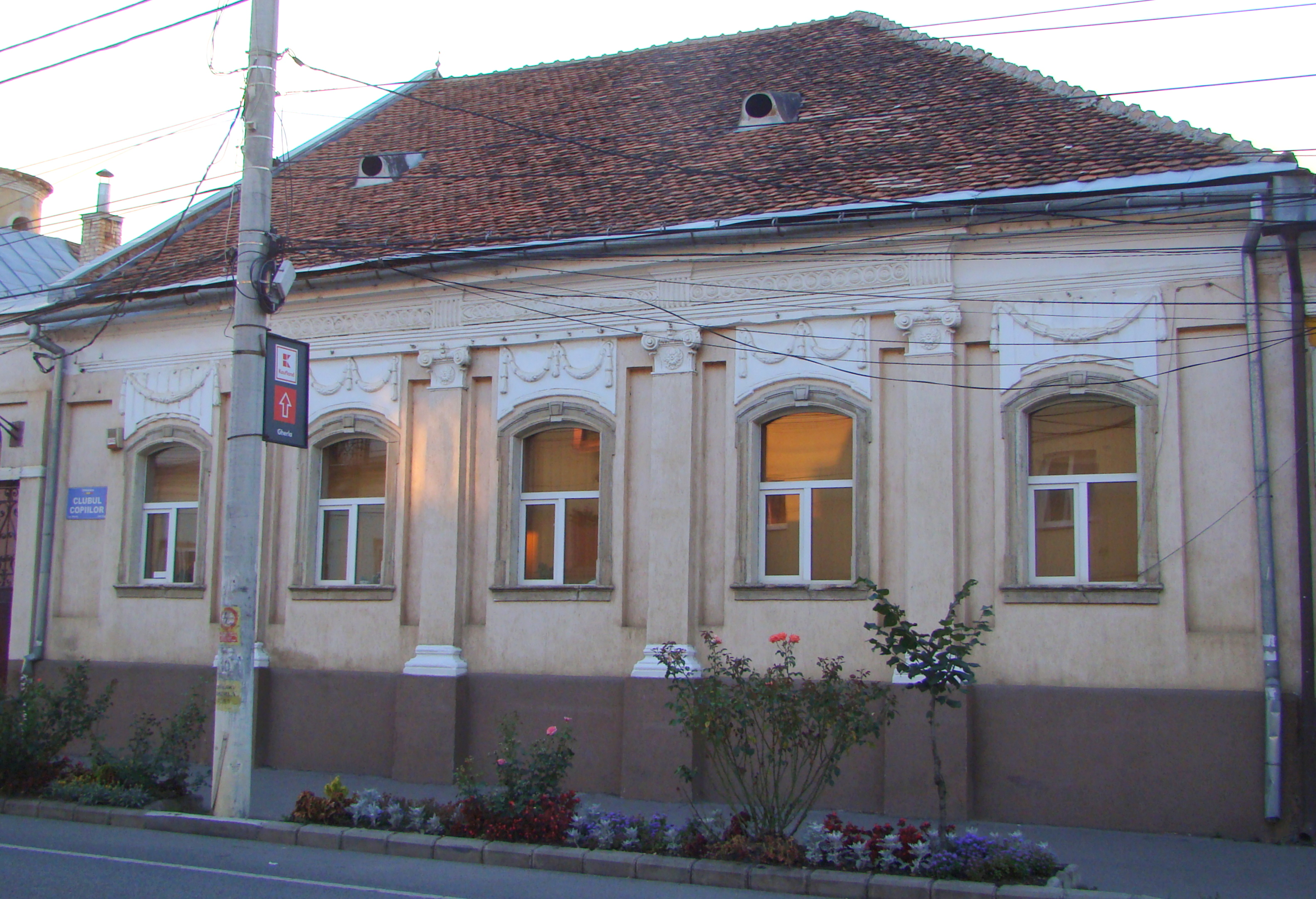 House, historic monument in Gherla, 1 Decembrie 1918 street, nr 12